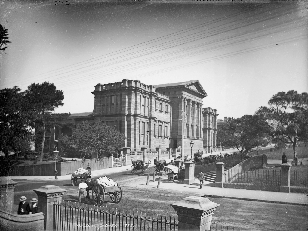 Format: Glass plate negative. Repository: Tyrrell Photographic Collection, Powerhouse Museum Part Of: Powerhouse Museum Collection General information about the Powerhouse Museum Collection is available at Persistent URL: [1] Acquisition credit line: Gift of Australian Consolidated Press under the Taxation Incentives for the Arts Scheme, 1985